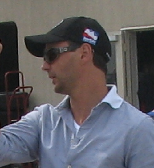 Darren Manning at the Indianapolis Motor Speedway for the second day of qualifications for the 2009 Indianapolis 500.